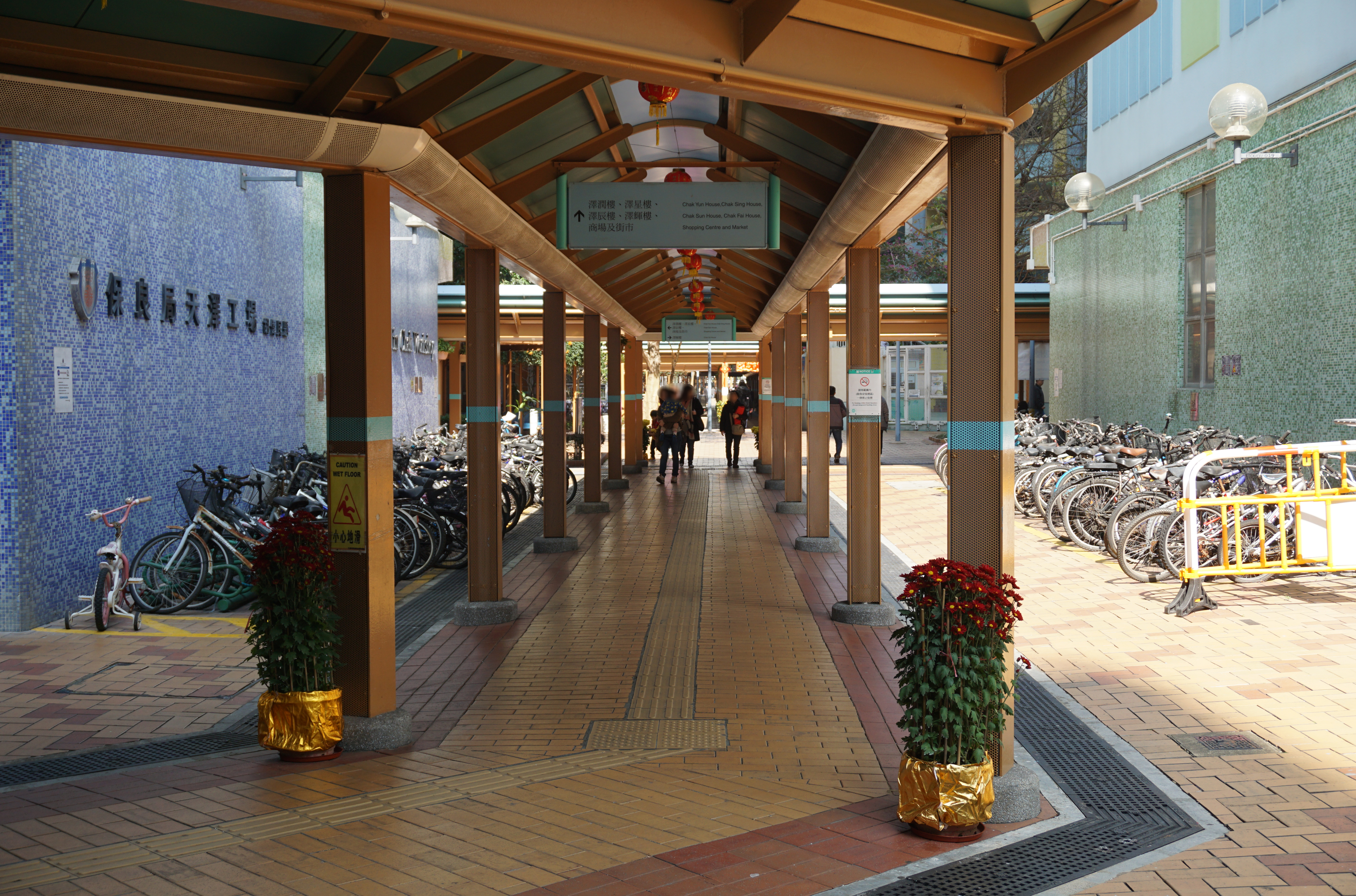 Tin Chak Estate in Tin Shui Wai, Hong Kong.